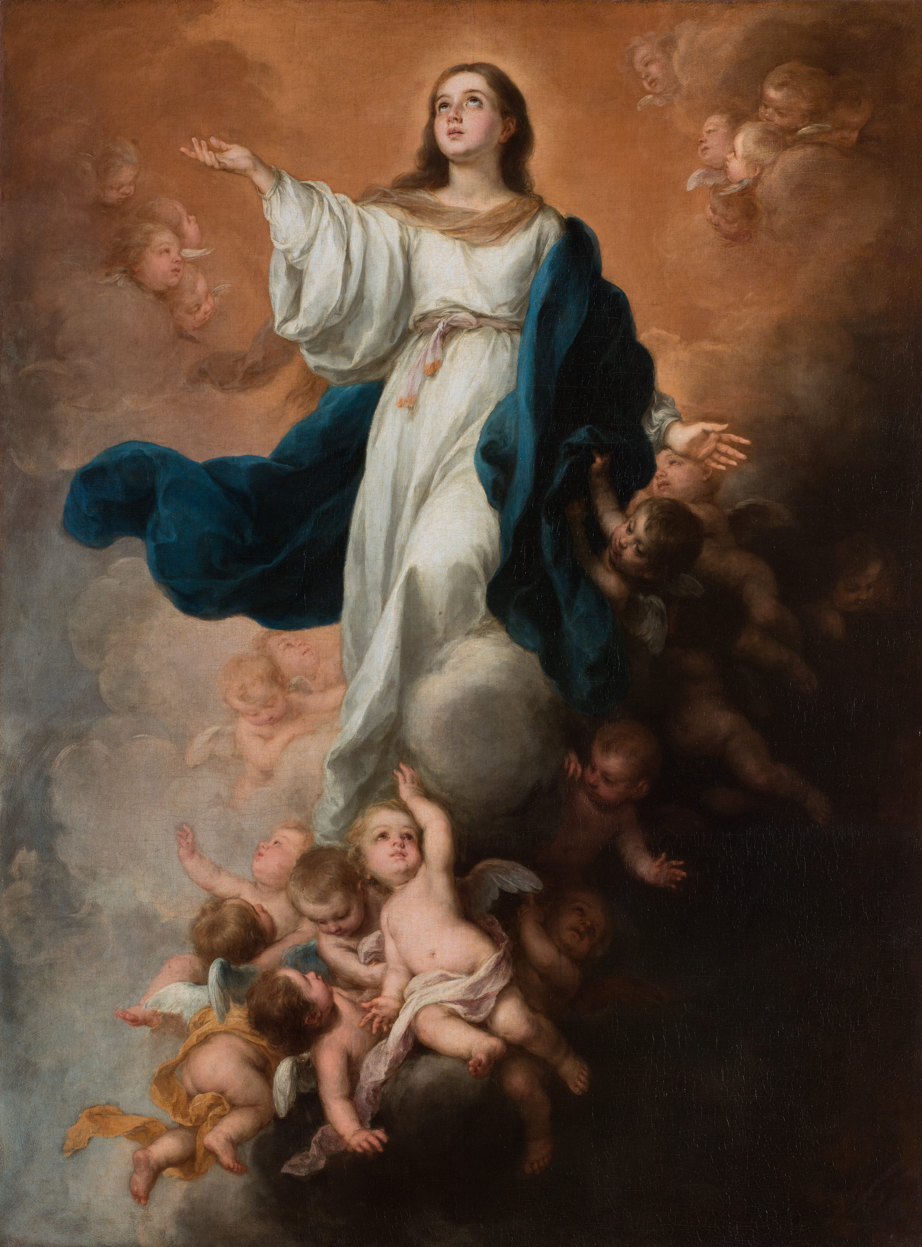 The Walpole Immaculate Conception